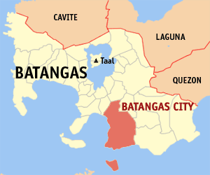 Map of Batangas showing the location of Batangas City